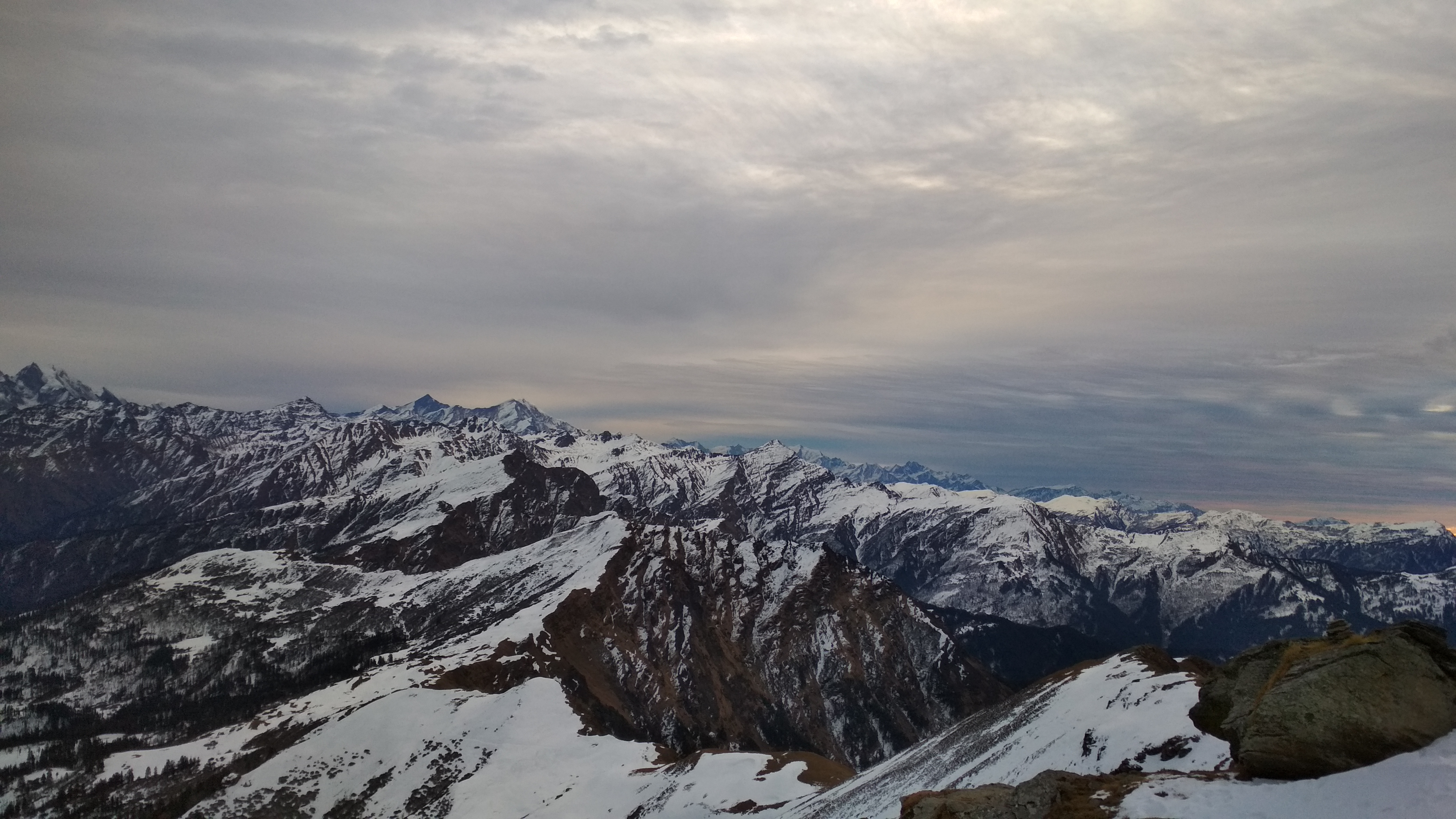 The View of the Himalayan Ranges from Kedarkantha Summit